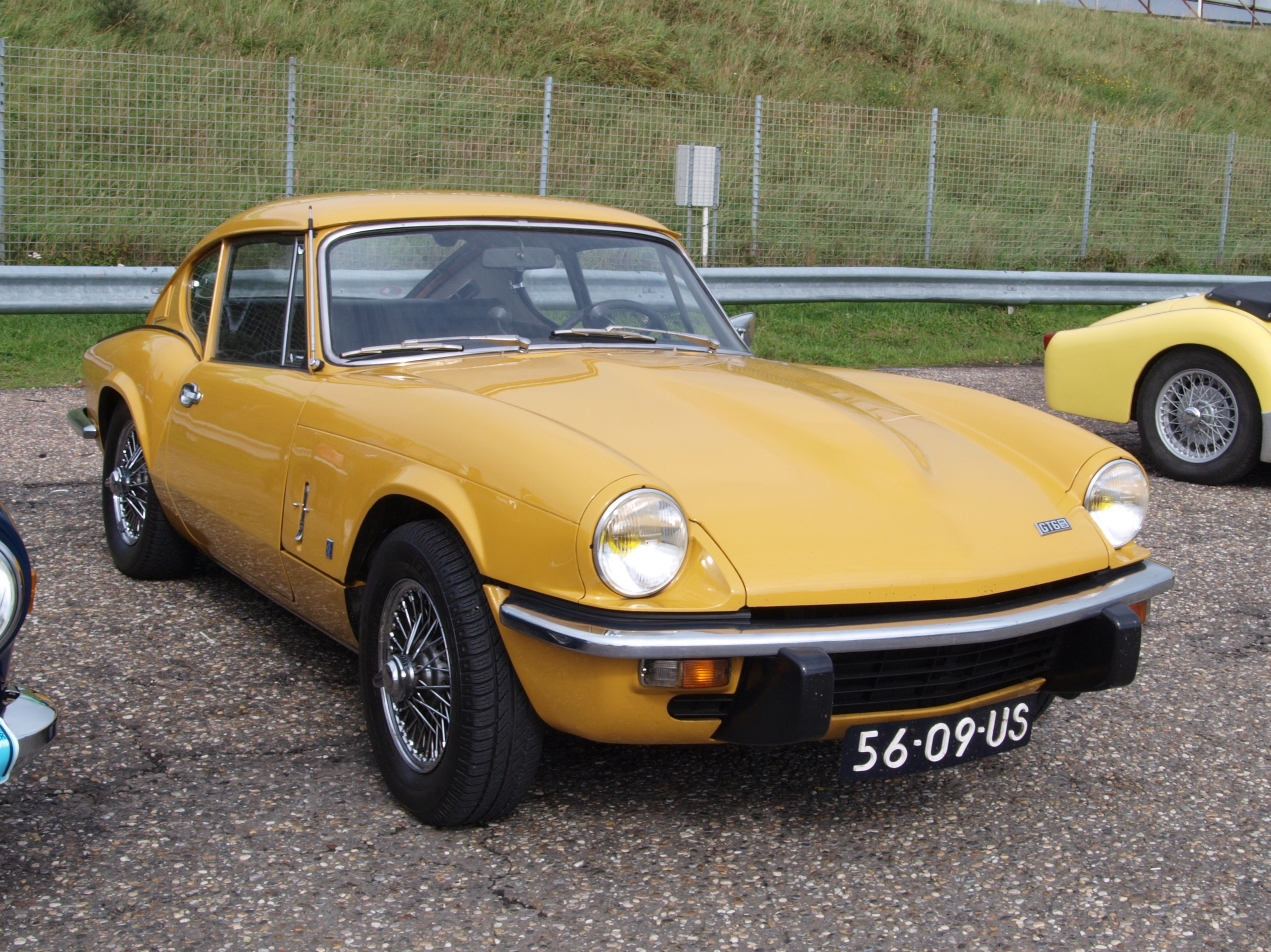 Photographed at the Nationaal Oldtimer Festival Zandvoort 2010, The Netherlands.